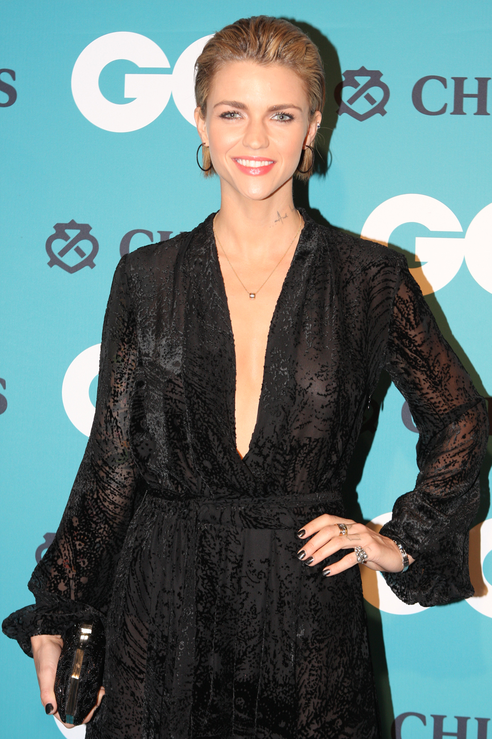 Ruby Rose